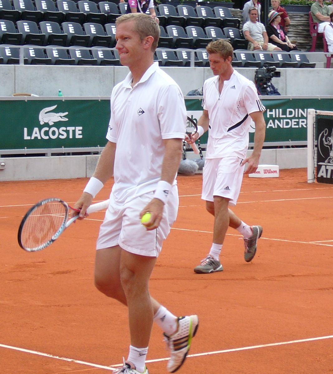 Thomas Johansson and Simon Aspelin playing doubles during the 2008 Swedish Open in Båstad.